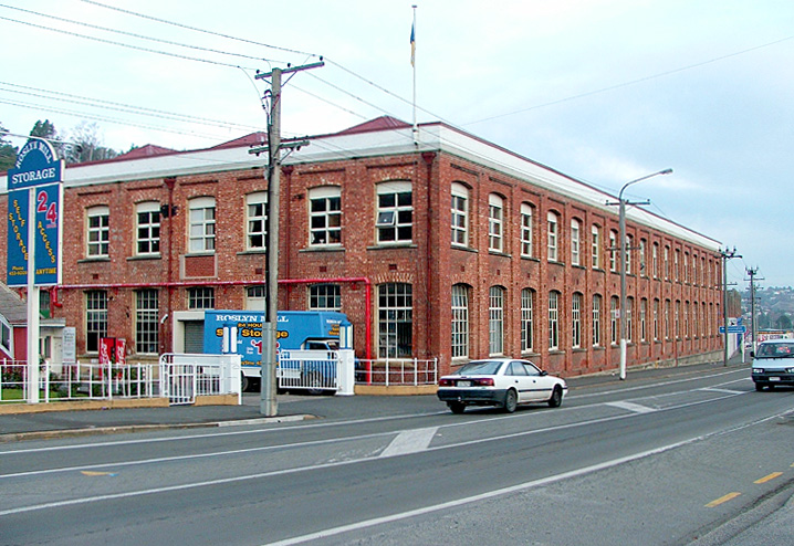 Photograph of memorial rongo stone, Andersons Bay, Dunedin, New Zealand.